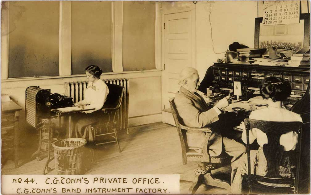 C.G.Conn's Private Office